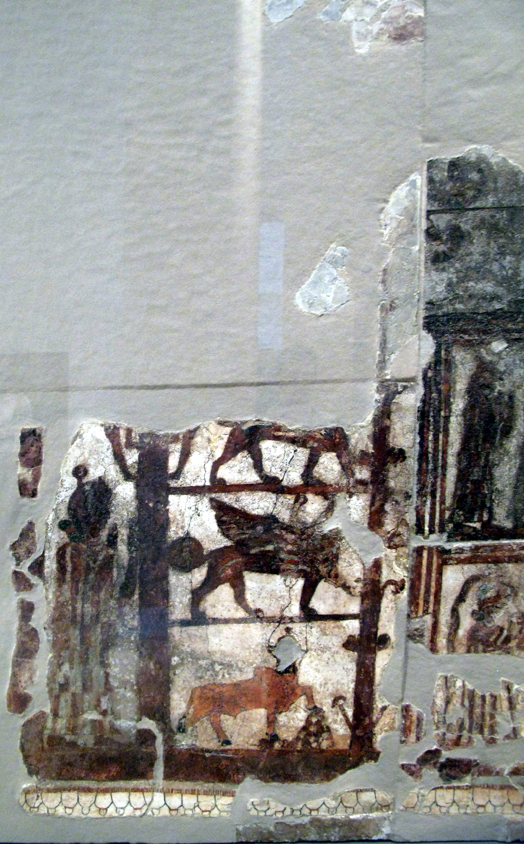 ArtistUnknownDescription Fresco of the investiture of Zimri Lim [1] 19th century BC, Royal palace of Mari. (Zimri-Lim, 1779 BC to 1757 BC, winged Sphinx, border detailing, etc.) Current location (Inventory)Louvre Museum Native nameMusée du LouvreLocationParisCoordinates48° 51′ 37″ N, 2° 20′ 15″ E Established1793Website control : Q19675 VIAF: 257711507 ISNI: 0000 0001 2260 177X ULAN: 500125189 LCCN: n80020283 NLA: 35912436 WorldCat Richelieu Rez-de-chaussée Mésopotamie, IIe et Ier millénaires avant J.-C. Salle 3Accession numberAO 19826Credit lineFound by A. Parrot, 1935 - 1936Source/PhotographerRama Fresco of the investiture of Zimri Lim [1] 19th century BC, Royal palace of Mari. (Zimri-Lim, 1779 BC to 1757 BC, winged Sphinx, border detailing, etc.)